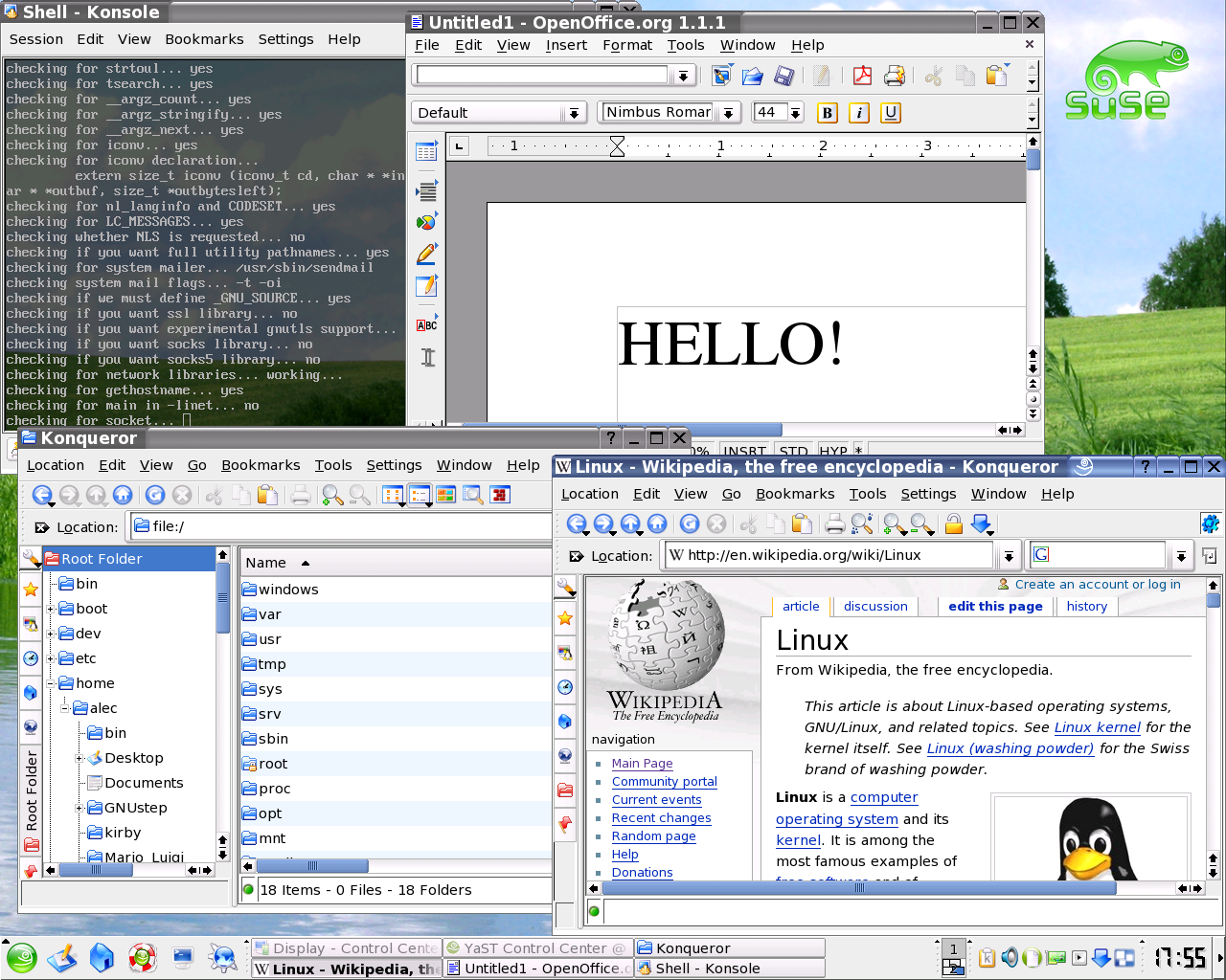 KDE 3.2.1 on SUSE Linux 9.1. Includes Konqueror 3.2.1, and 1.1.1. Image from English Wikipedia